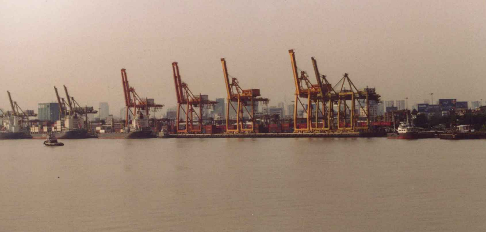 Harbour cranes of the Khlong Toei harbour, Bangkok, Thailand. Photo taken by User:Ahoerstemeier on July 6 2003.